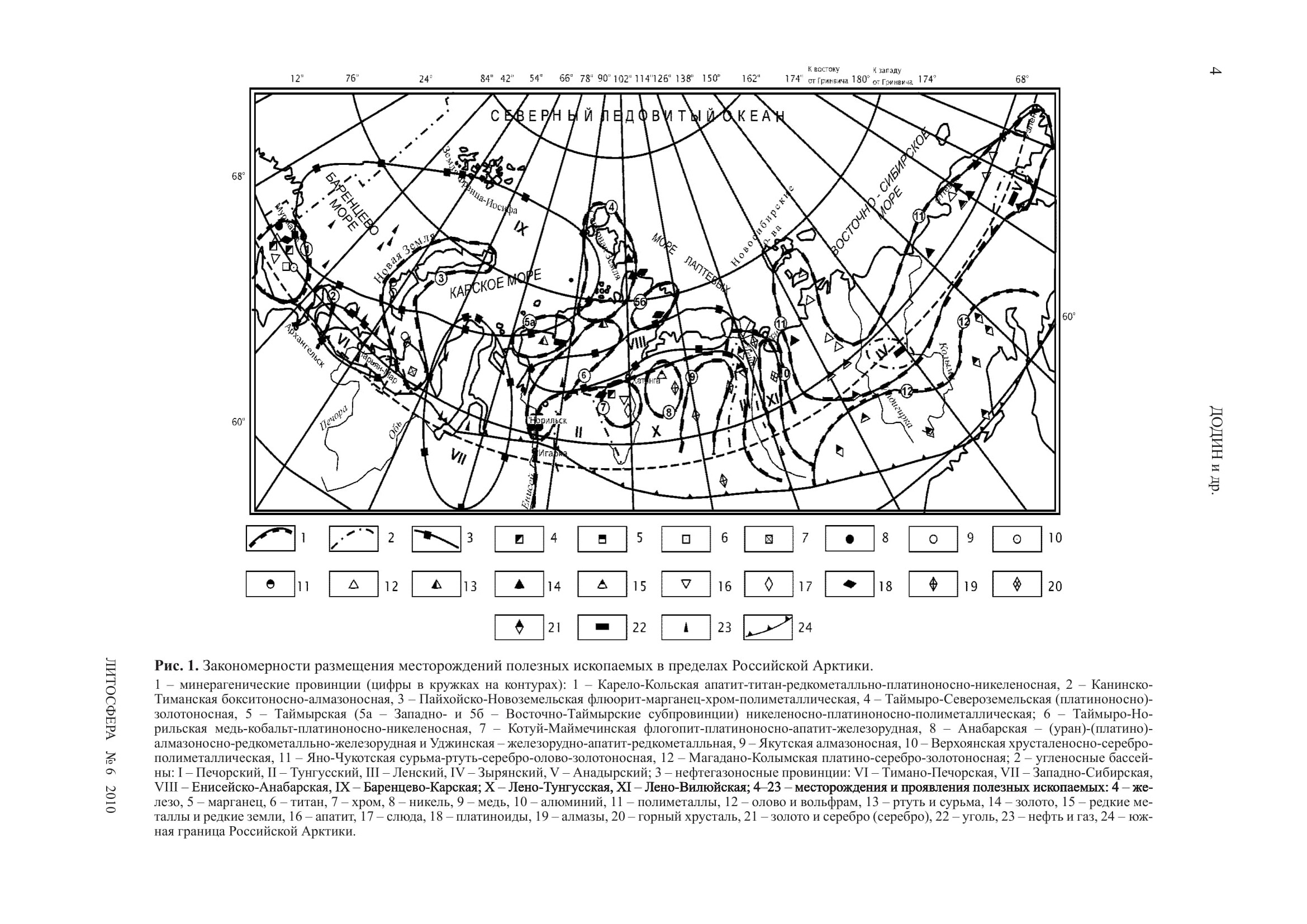 Accommodation of mineral resources and fuels in the Arctic Zone